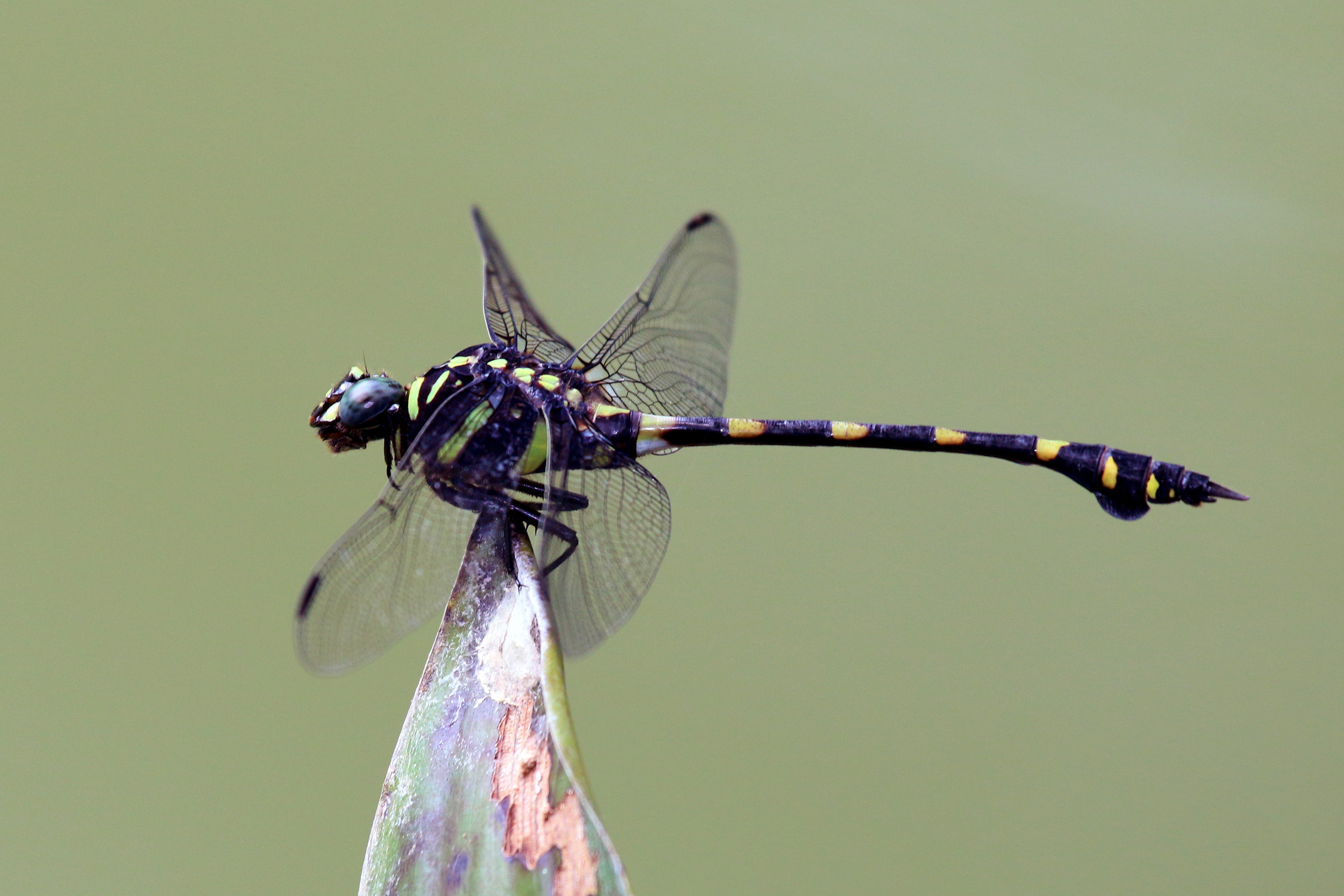 Common flangetail (Ictinogomphus decoratus) male, Singapore